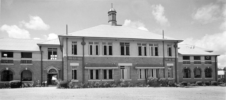 Coorparoo State School, Brisbane. (Located at Old Cleveland Road, Coorparoo.)